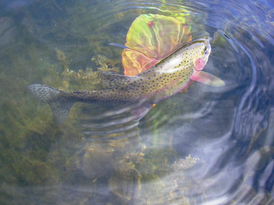 A westslope cutthroat trout (Oncorhynchus clarki lewisi) in Boise National Forest, Idaho